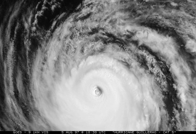 1997's Hurricane Guillermo. [1]